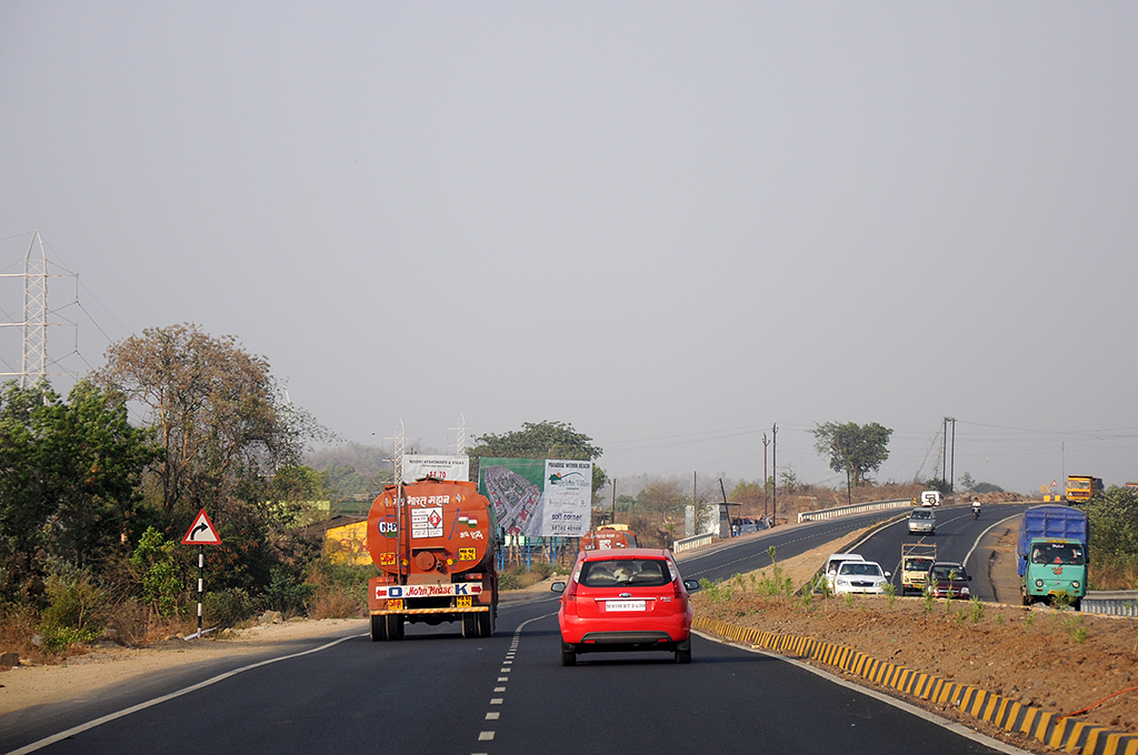 Somewhere after the toll booth